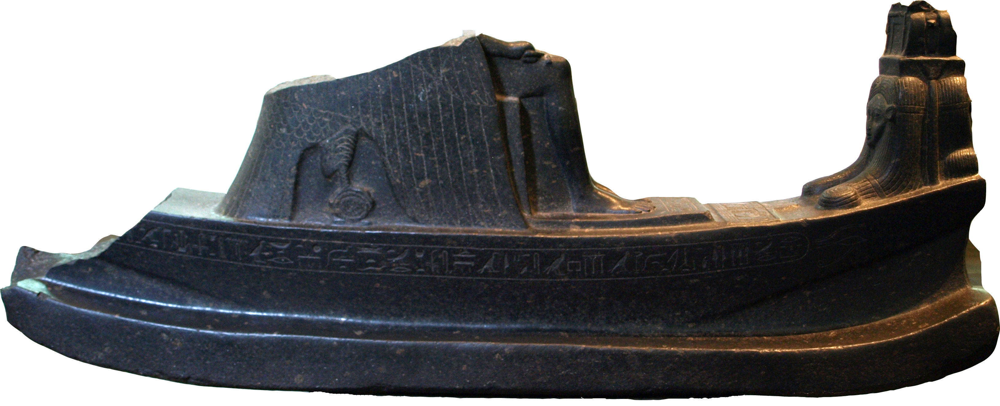 Statue of a sacred boat made of black granite, dedicated to the wife of Thutmosis IV, Mutemuia. Circa 1400 BC, originally from the Temple of Karnak. EA 43.